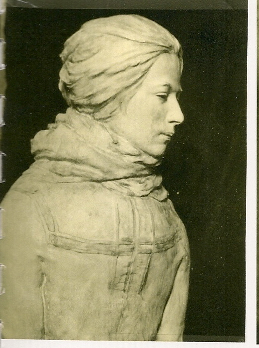 Ferryden Fisherwife, sculpted by William Lamb in Montrose